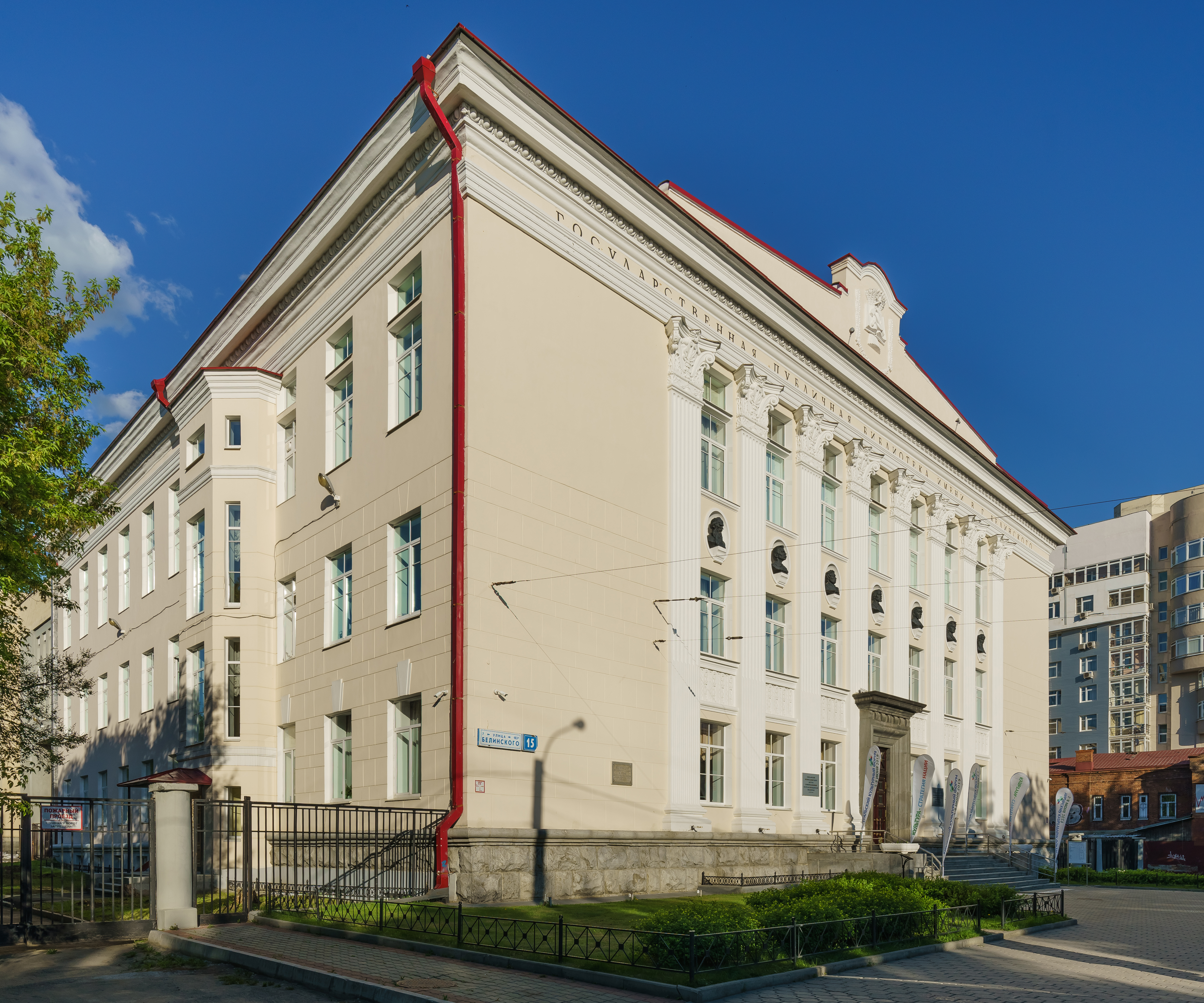 Belinsky Library in Ekaterinburg, Russia